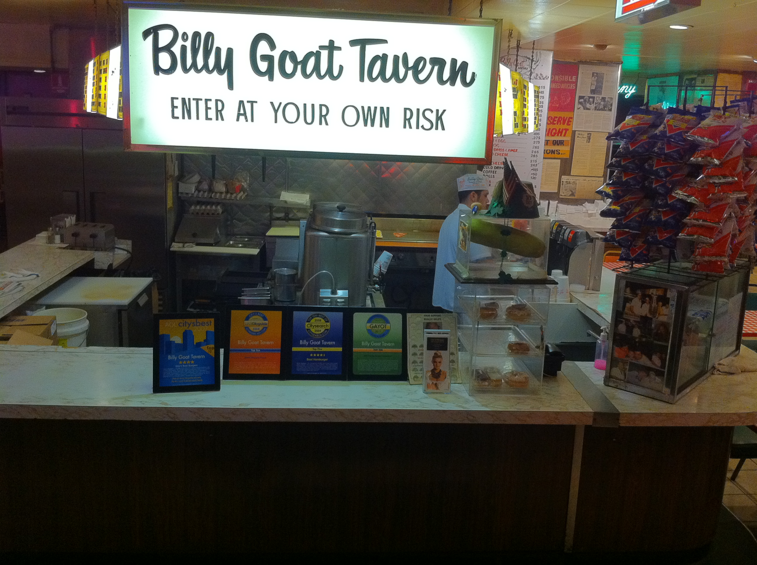 Billy Goat Tavern, 430 North Michigan Avenue, Chicago, Illinois. This is the original location, featured in Saturday Night Live skit.